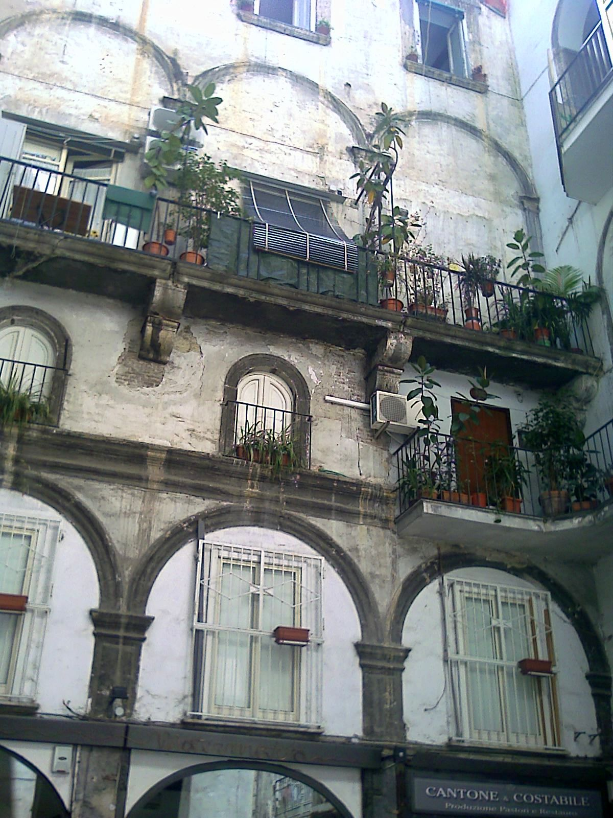 Palazzo Pinelli: Courtyard